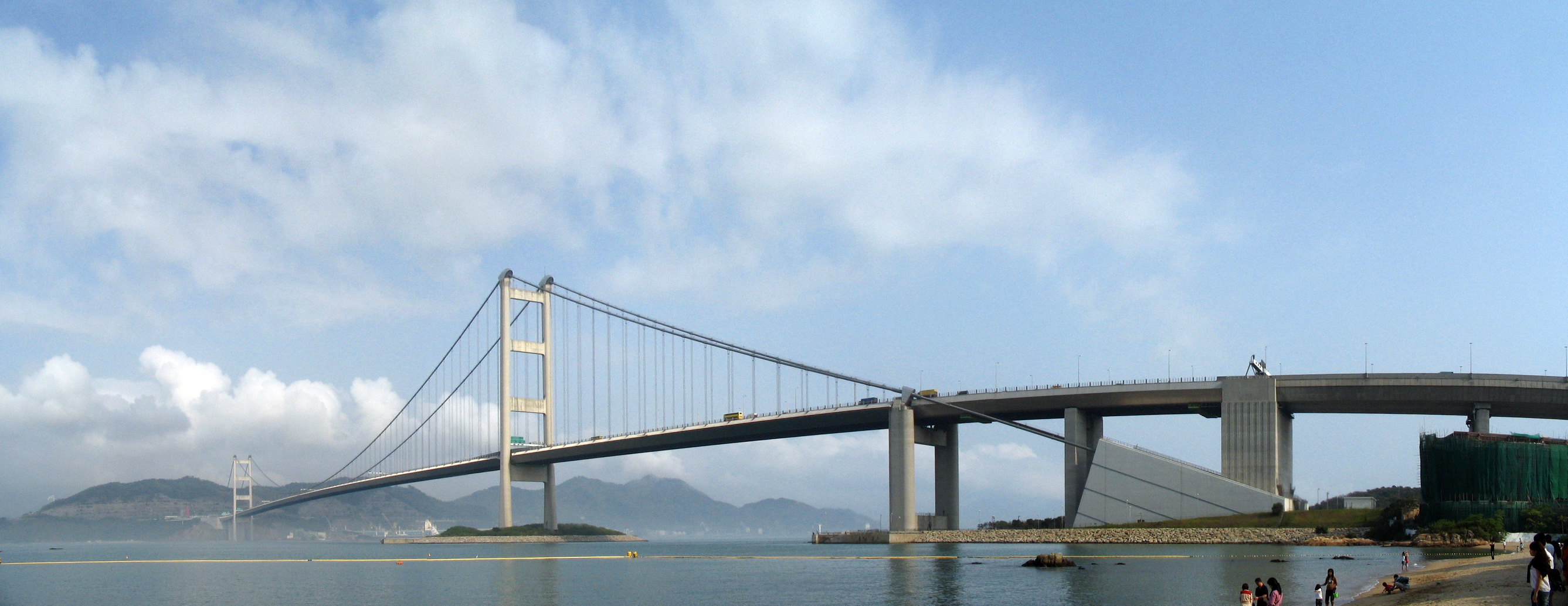 Panoramic photo of Tsing Ma Bridge, combined from 2370451143, 2371287162 and 2370452345